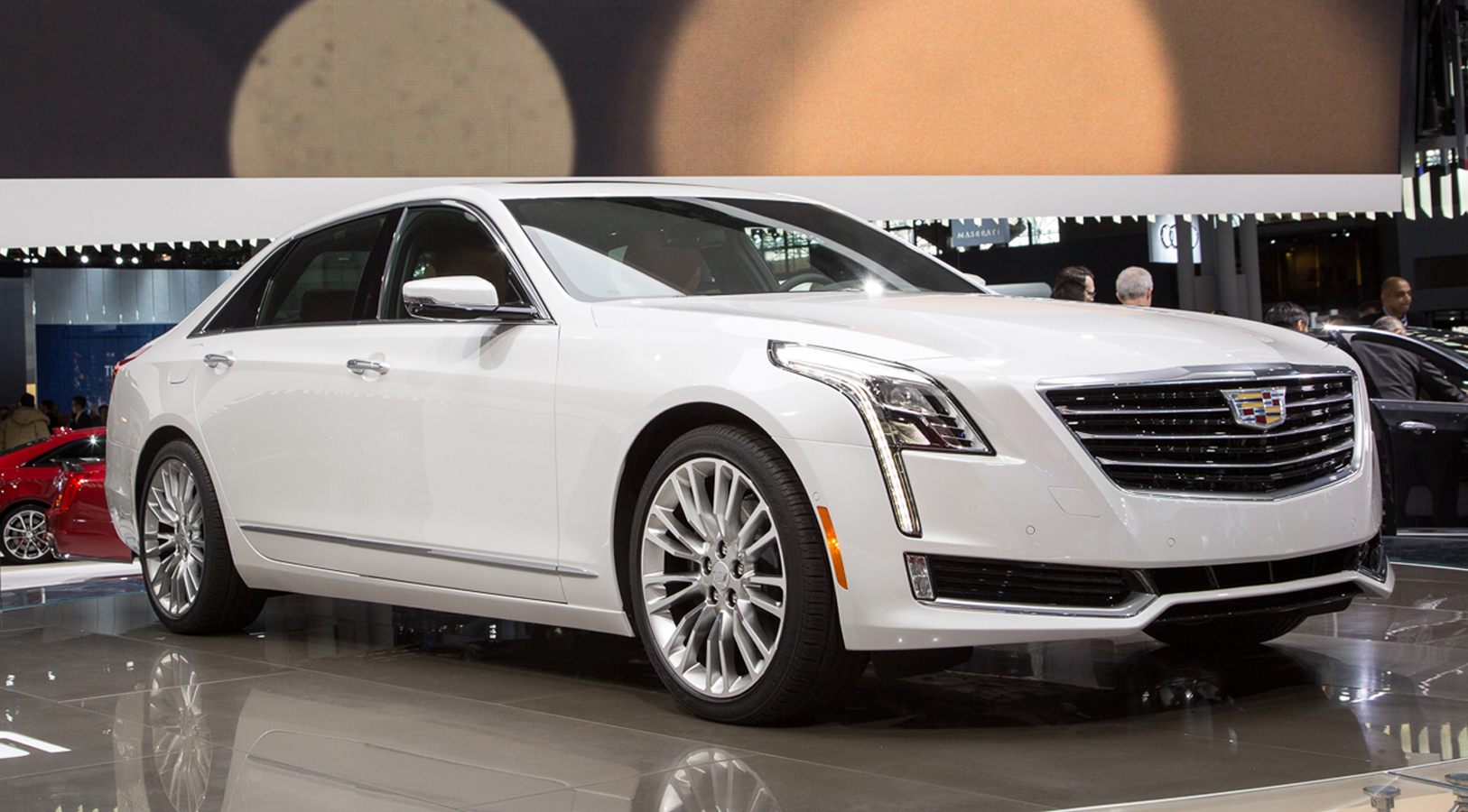 Cadillac CT6 at the 2015 New York International Auto Show